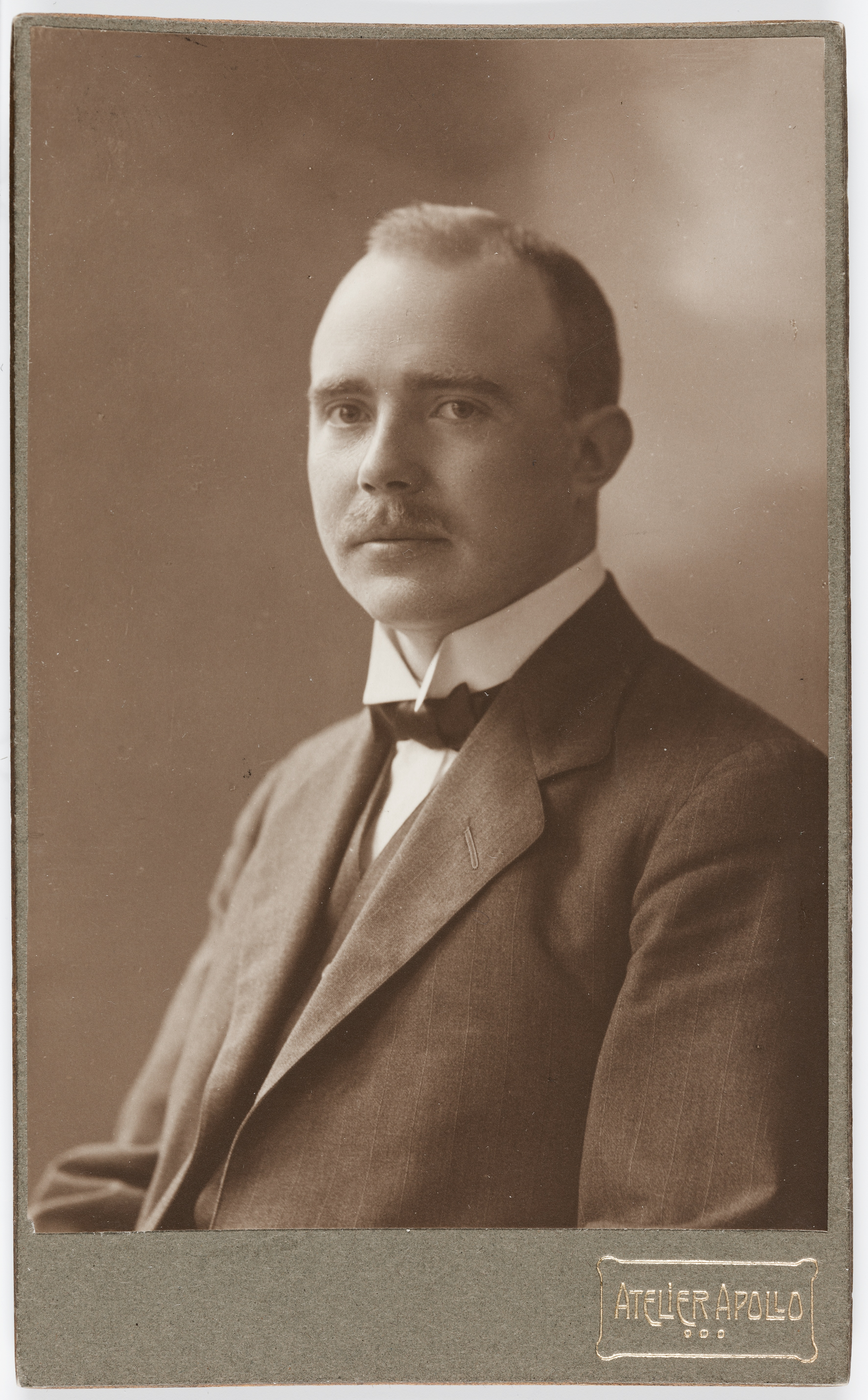 Photograph of the Finnish physician and professor Paavo Pirilä (1883–1957).